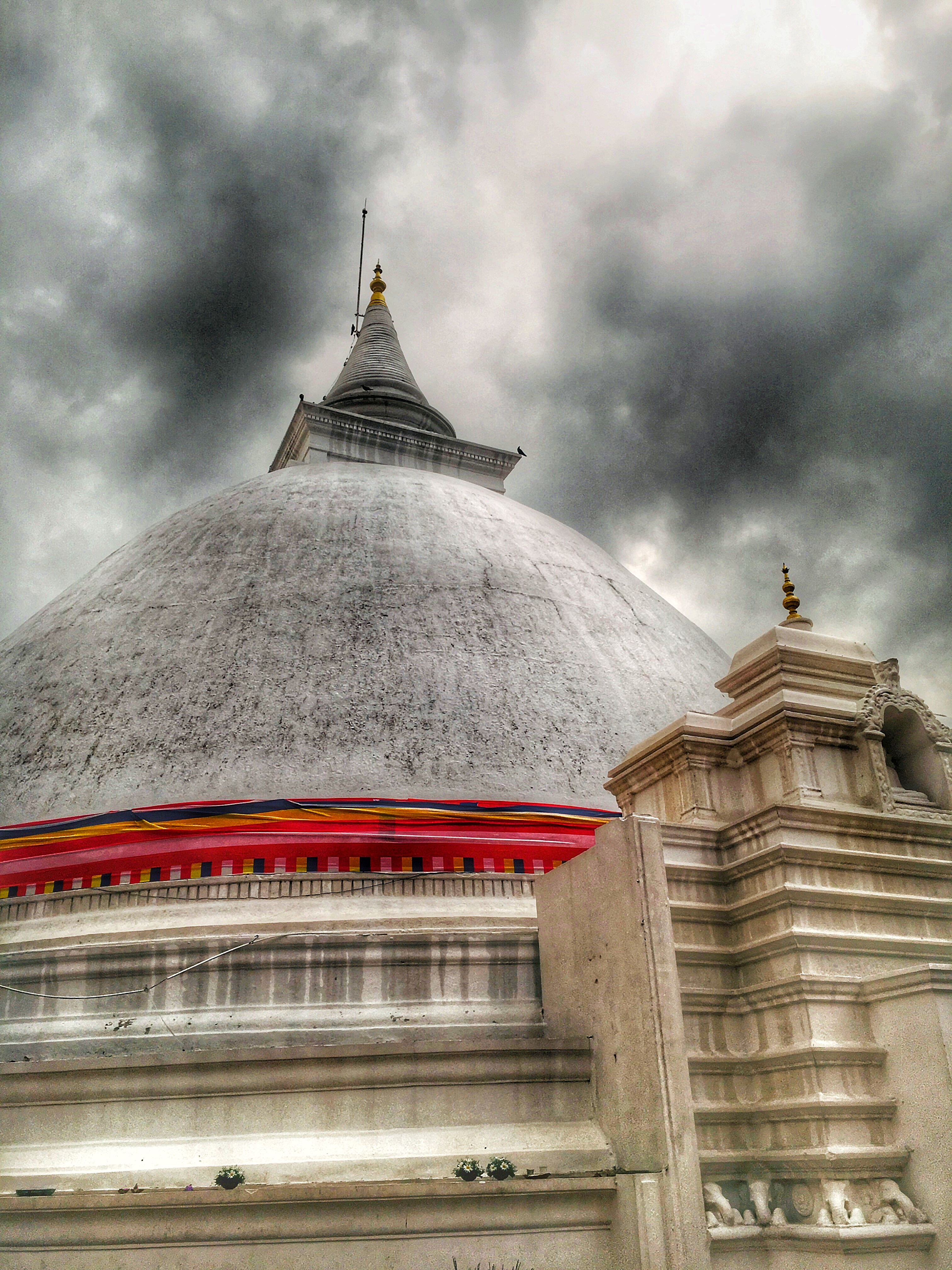 Ruwanwalisaya Anuradhapura